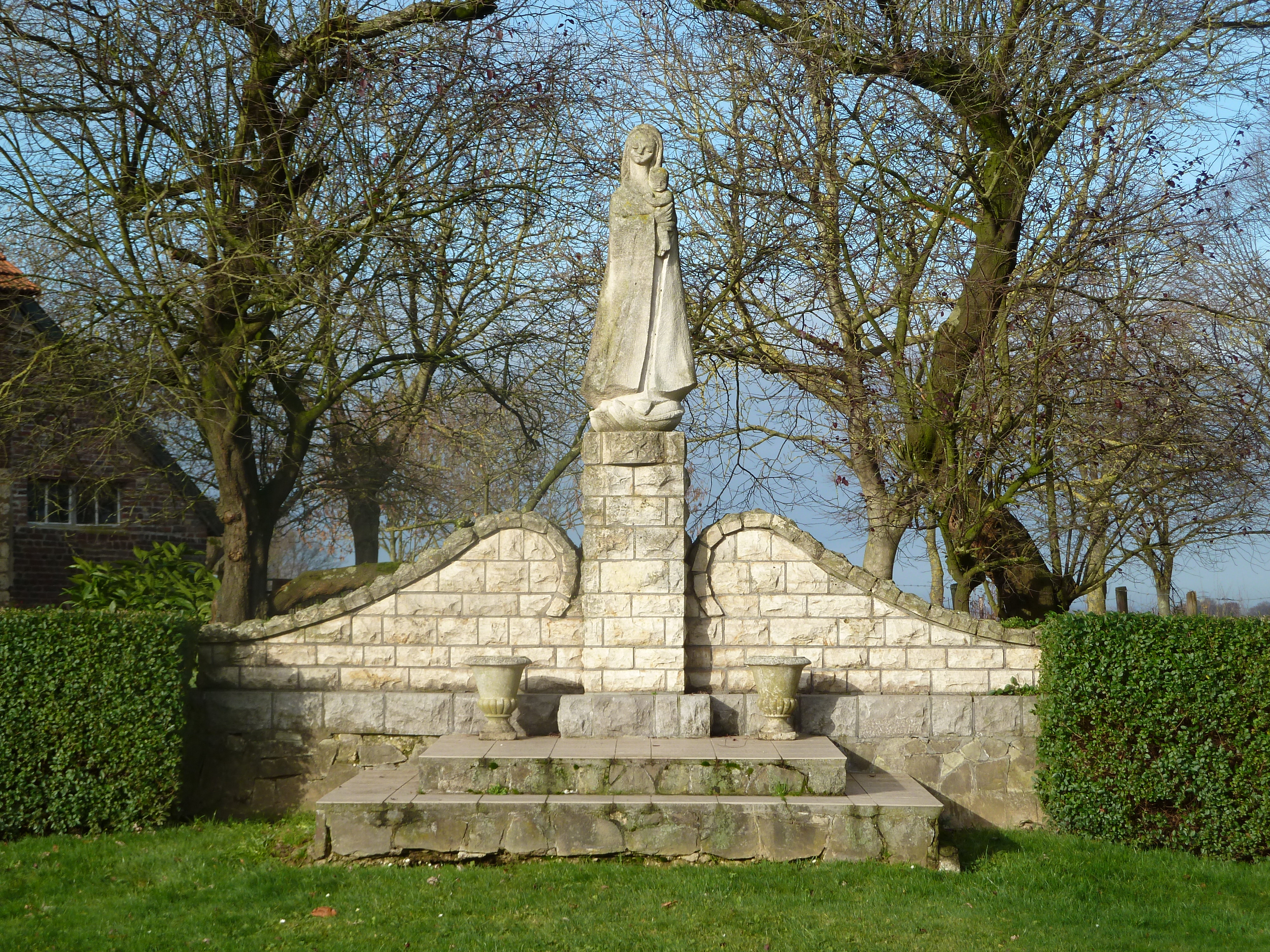 Statue of Maria, Eyserheide, Eys, Limburg, the Netherlands